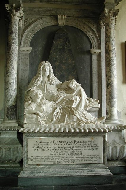 St Peter, Steeple Aston, Oxon - Monument